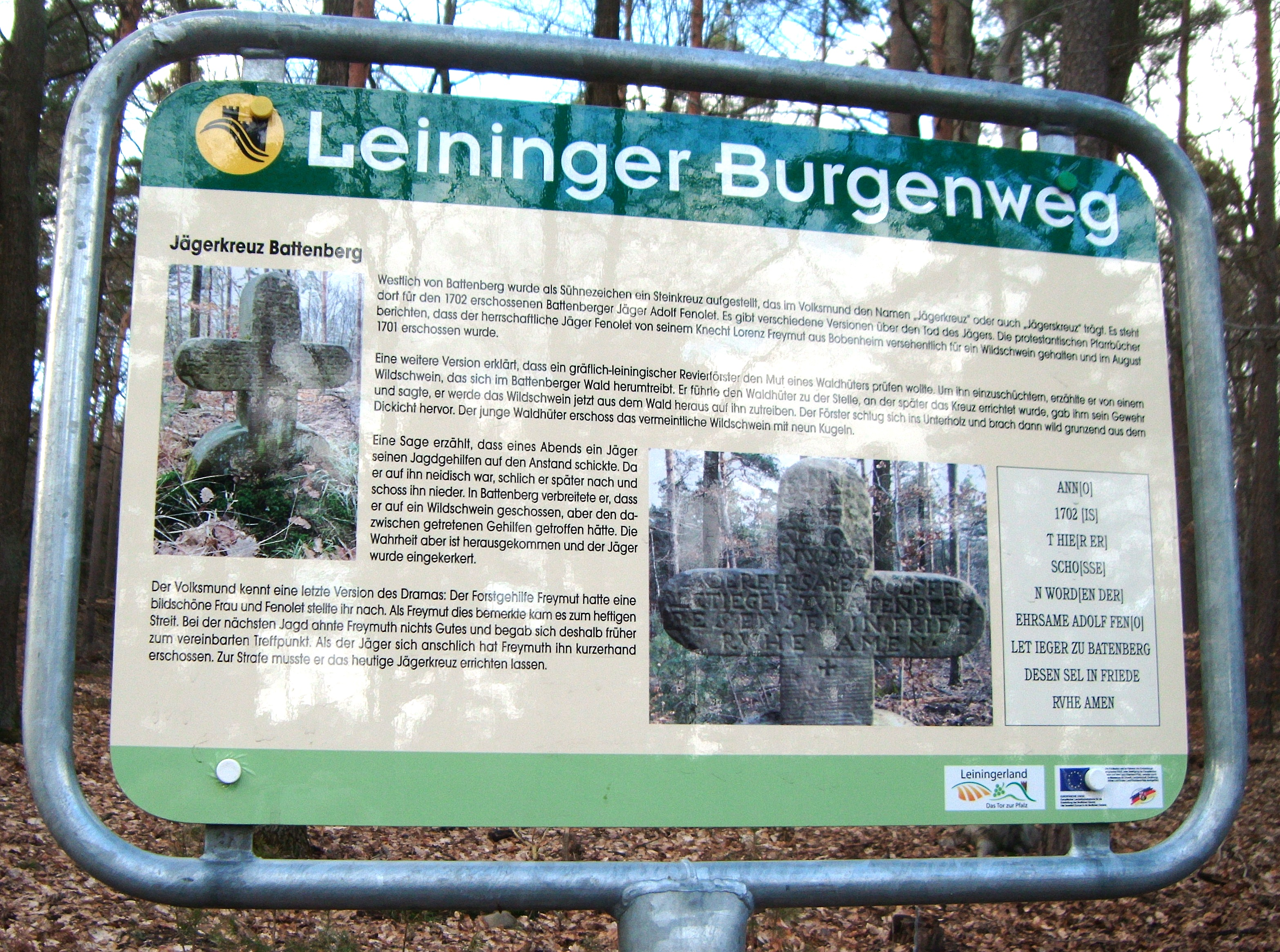 Battenberg, Jägerkreuz, Hinweistafel